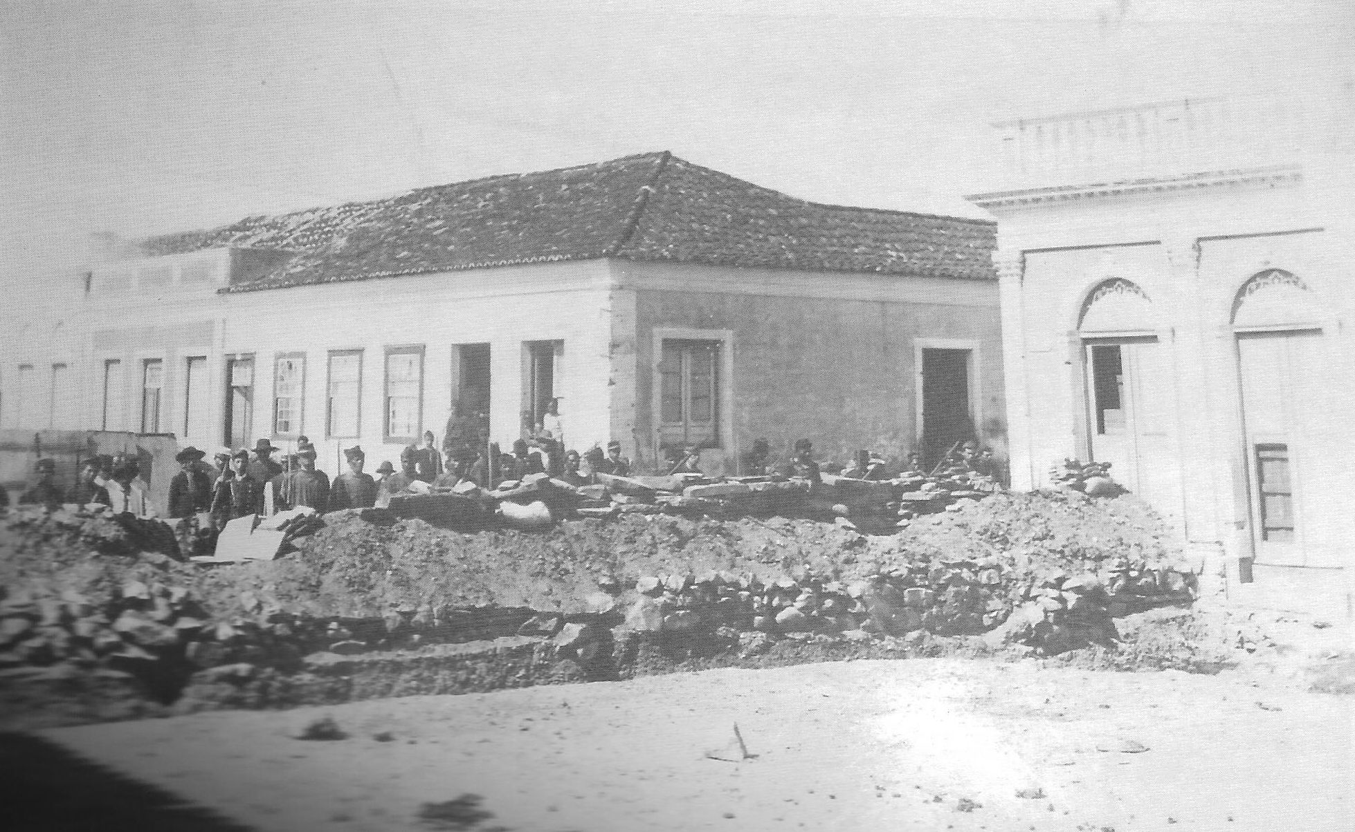 Revolution of 1893, Brazil: siege of Bagé, trench at Sete de Setembro Street.